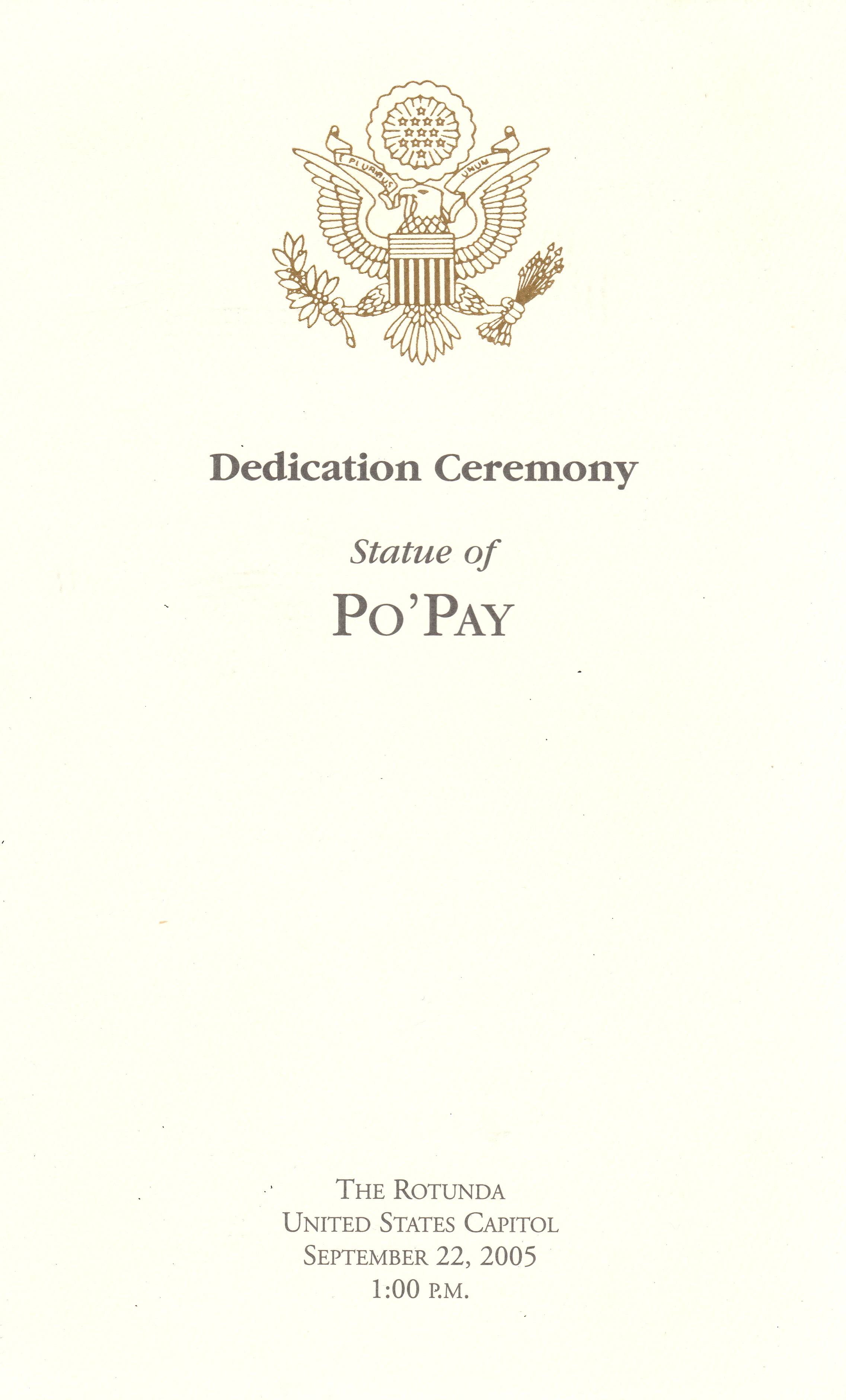 Sept. 22, 2005, 1 p.m.